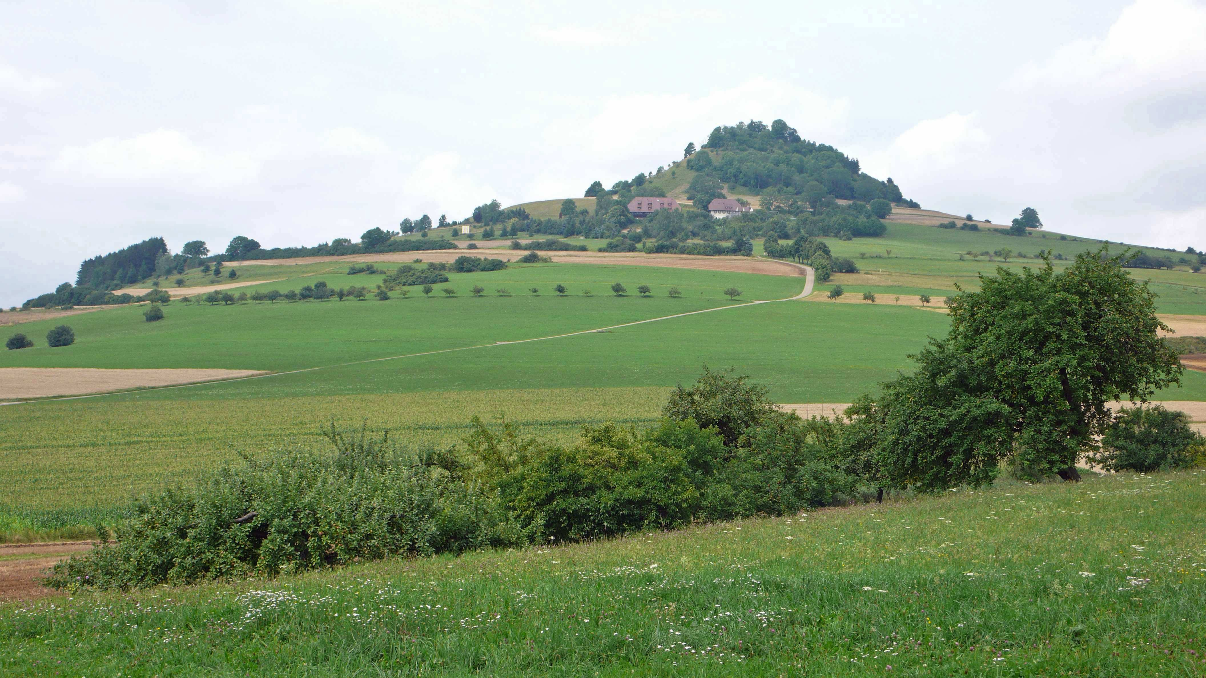 Hohenkarpfen, Mountain, Landkreis Tuttlingen, Germany